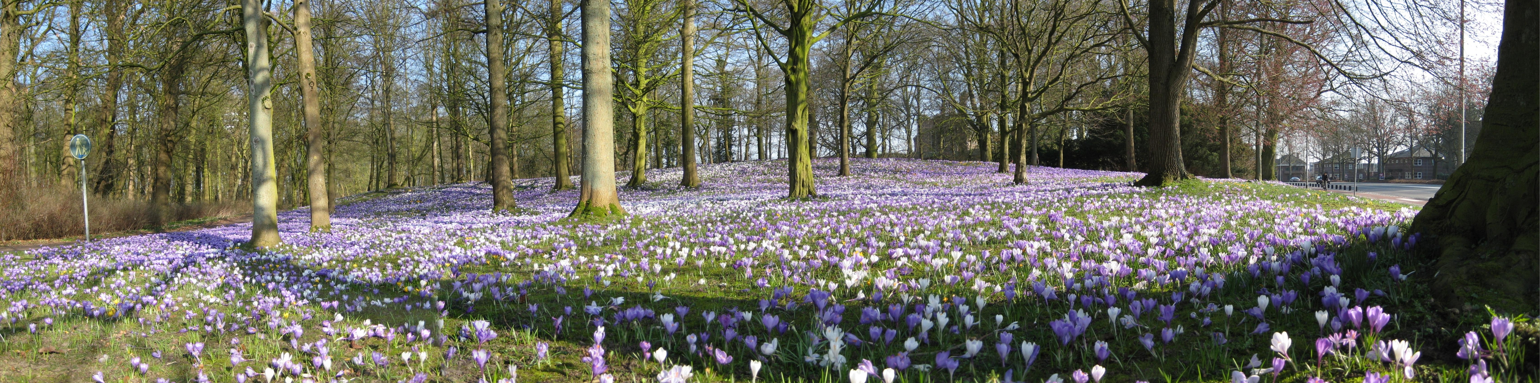 The Sterrebos, a park in the Dutch city of Groningen.